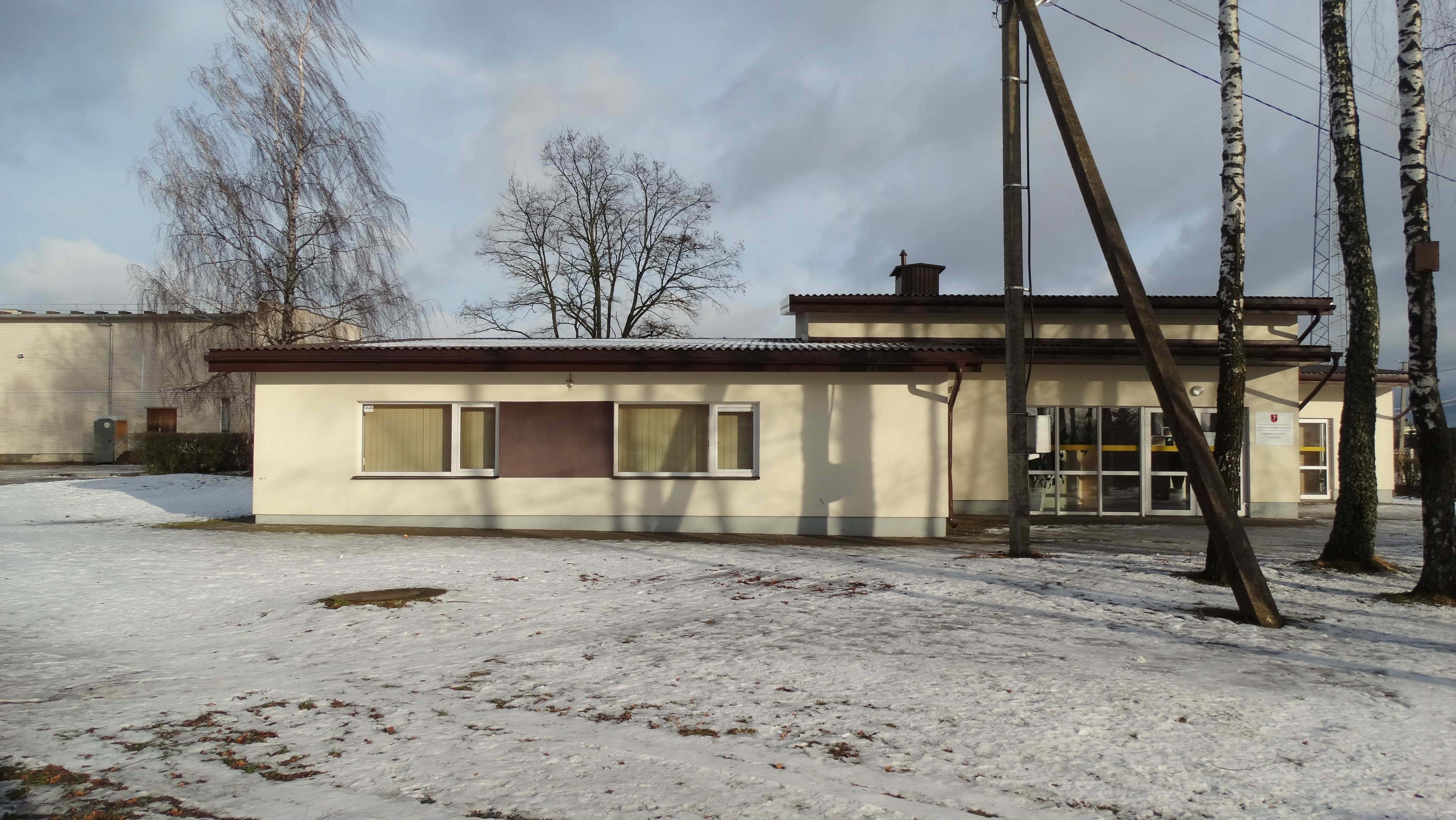 Zujūnai, Vilnius district, Lithuania